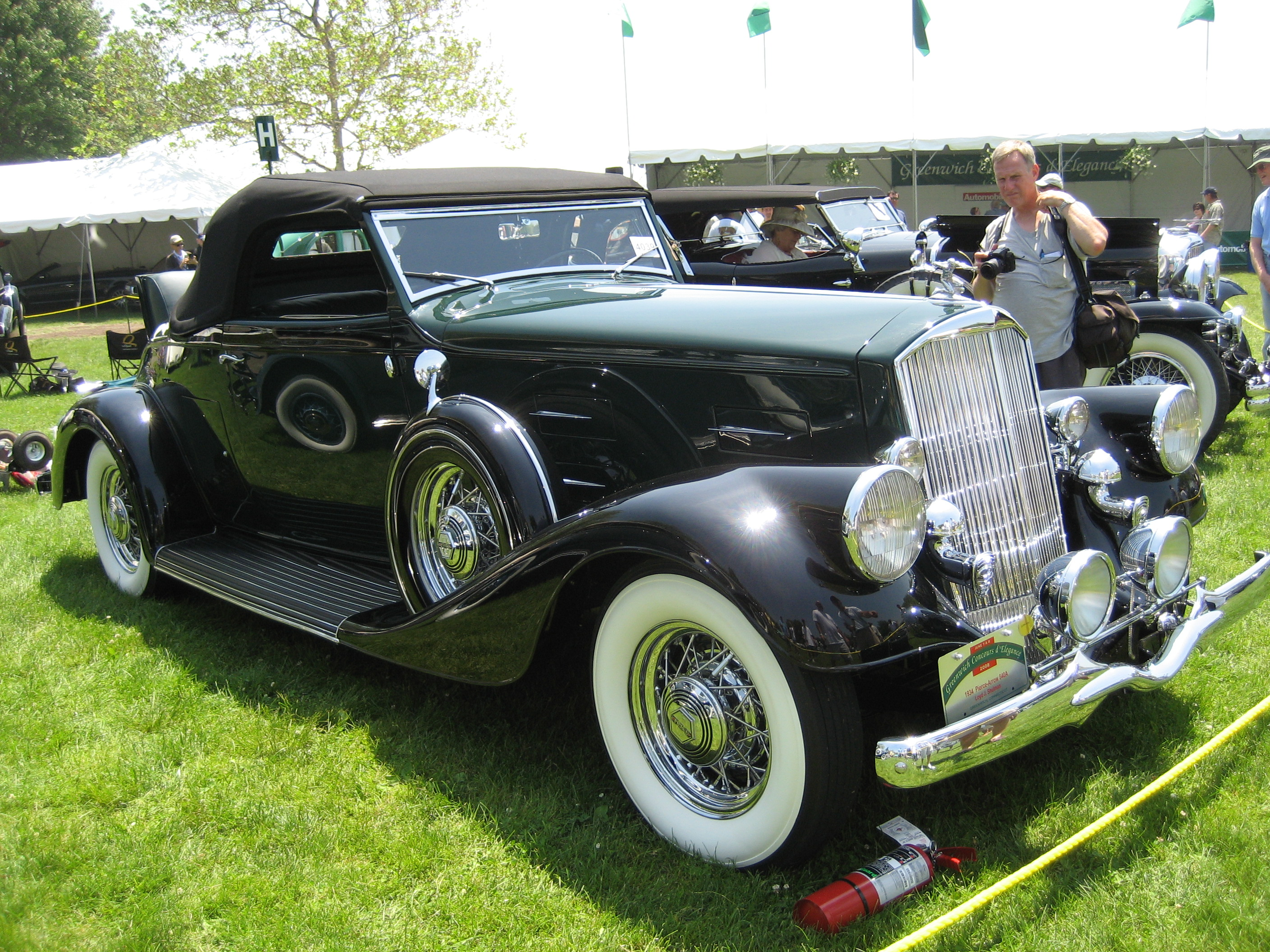 1934 Pierce-Arrow Model 840A photographed at the 2008 Greenwich Concours d'Elegance in Greenwich, Connecticut.